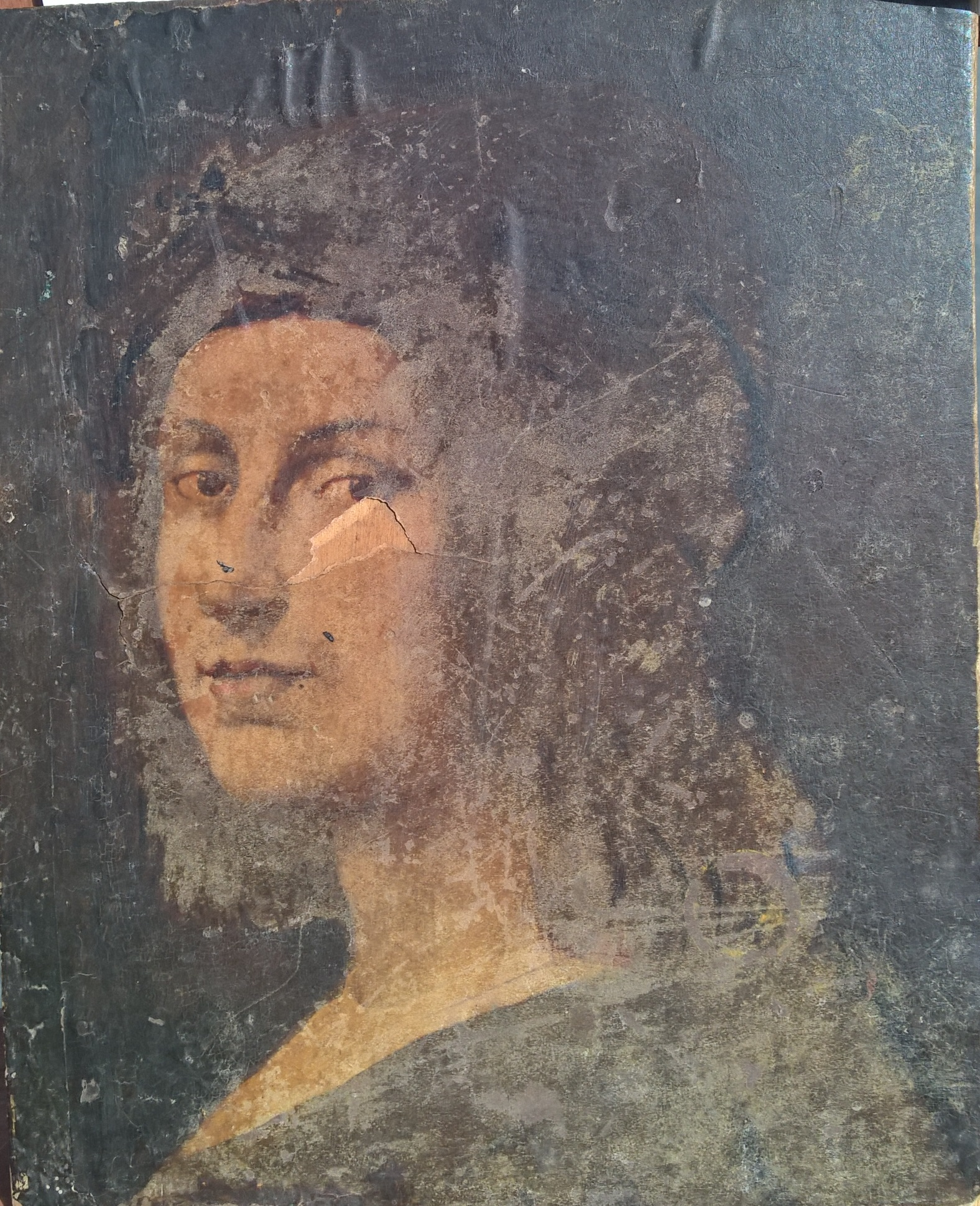 D.Dobrovich,Eleofotografia by Raphael (in front)